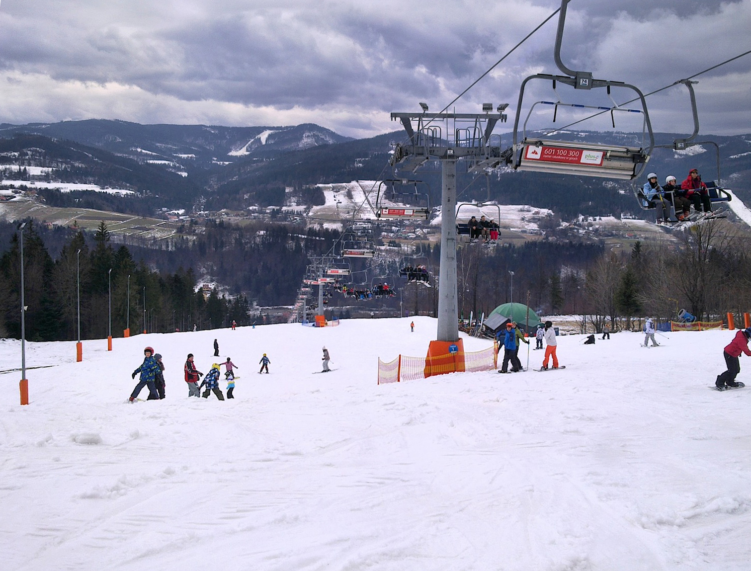 Wisła, Poland. Nowa Osada ski lift.